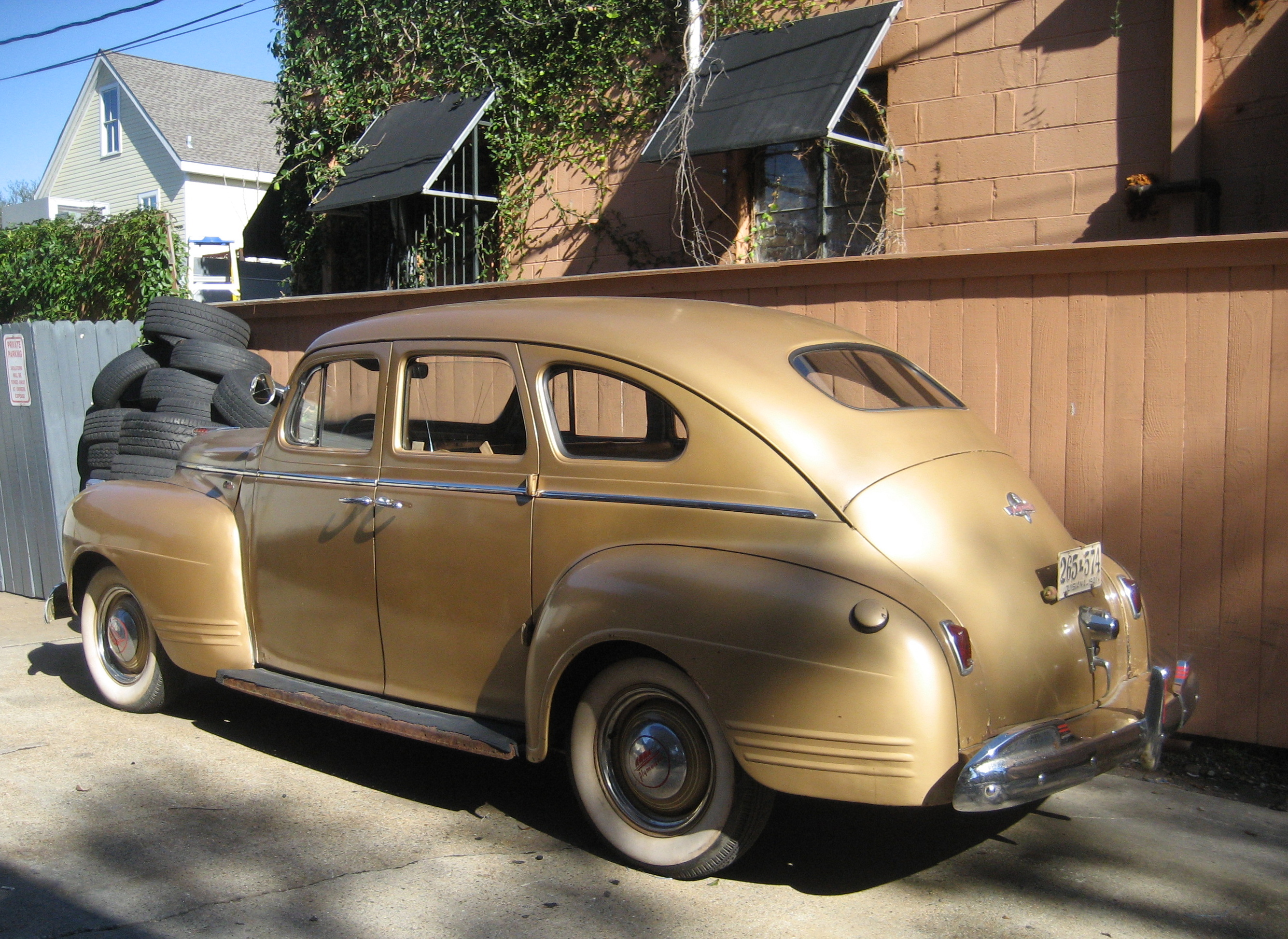 1941 Plymouth, seen in service station lot off Magazine Street, New Orleans.